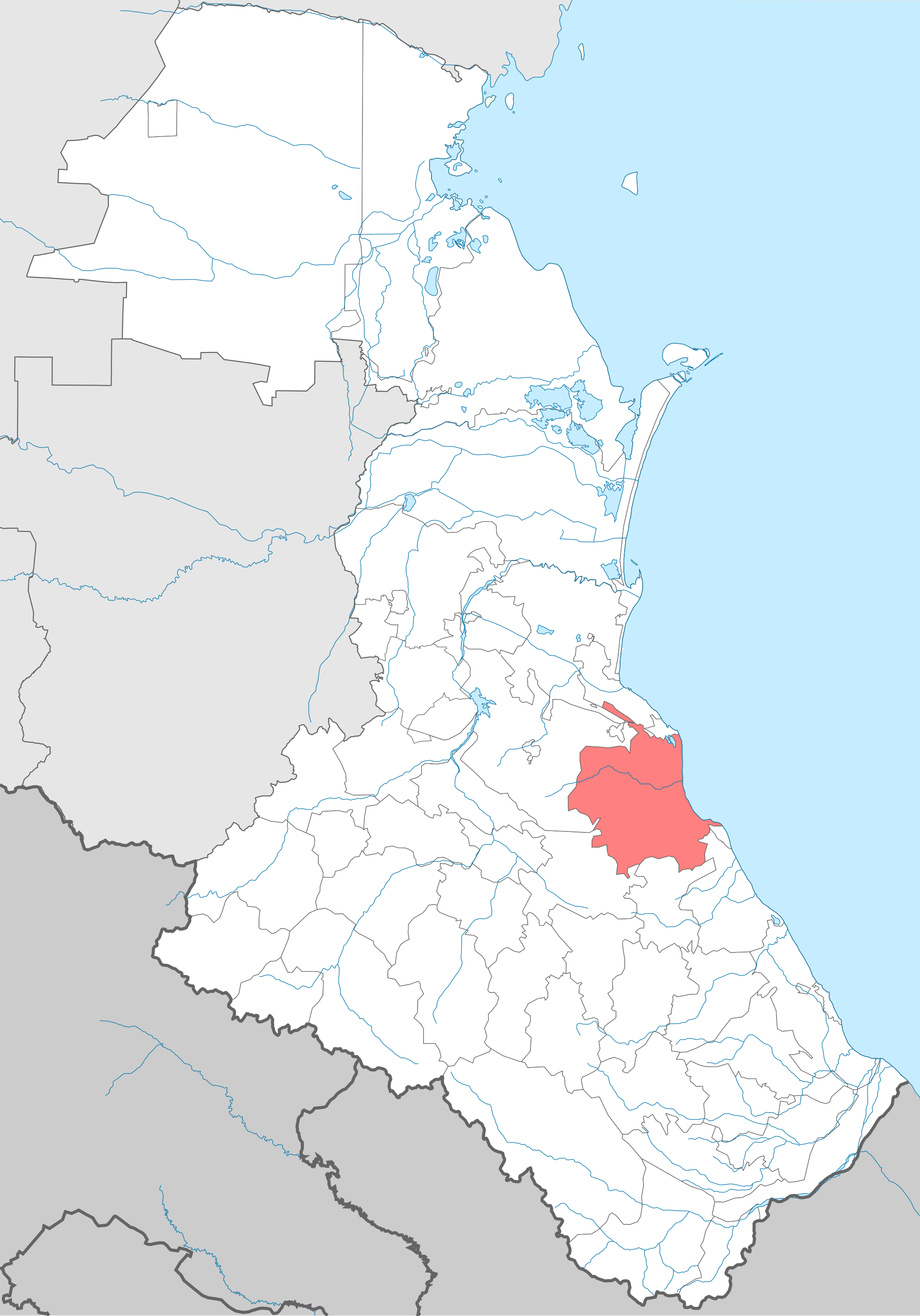 Karabudakhkentsky district locator map